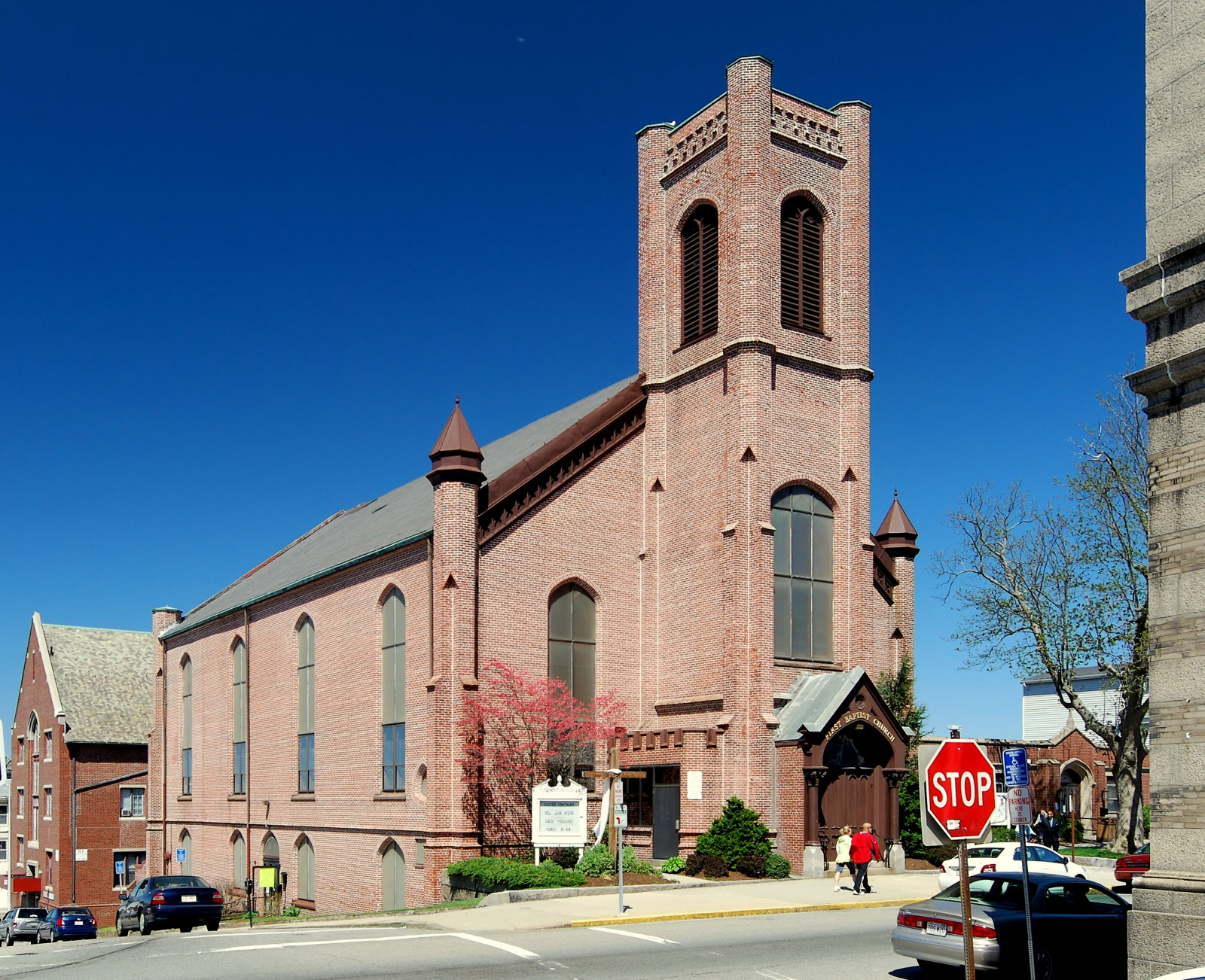 First Baptist Church, North Main Street, Fall River, Massachusetts